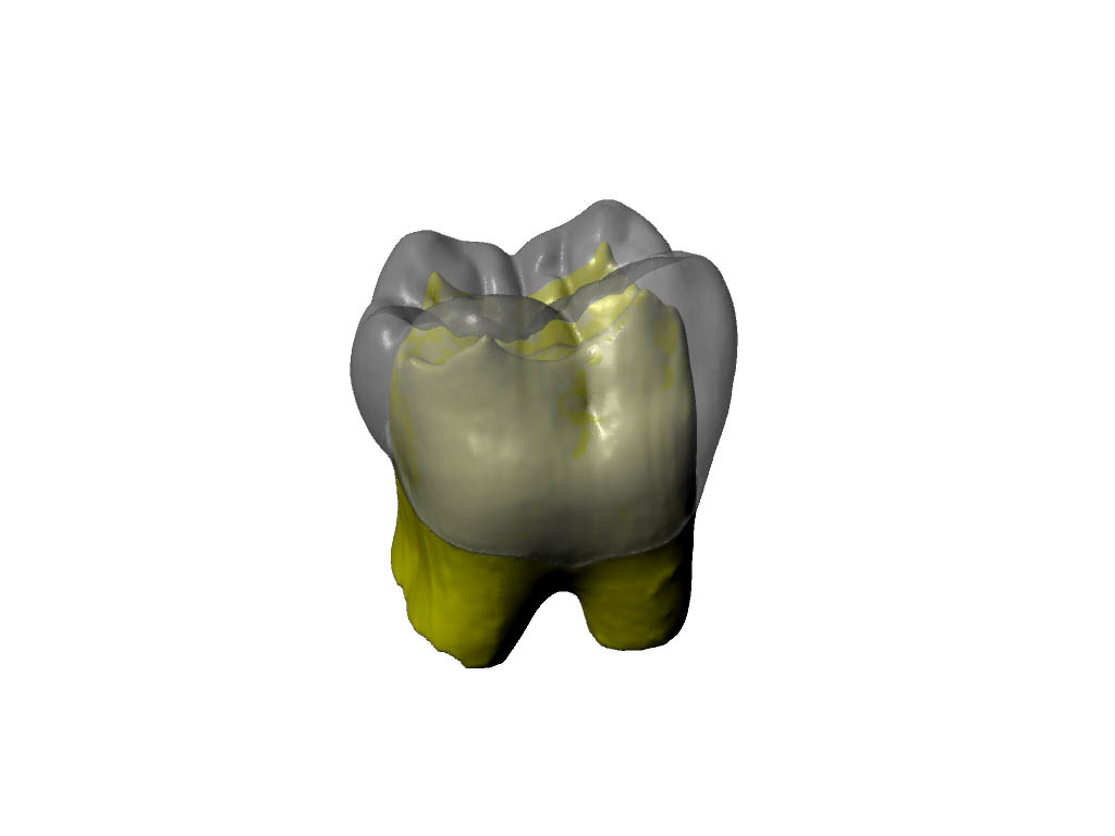 Paleoanthropology - virtual reconstrution of a tooth